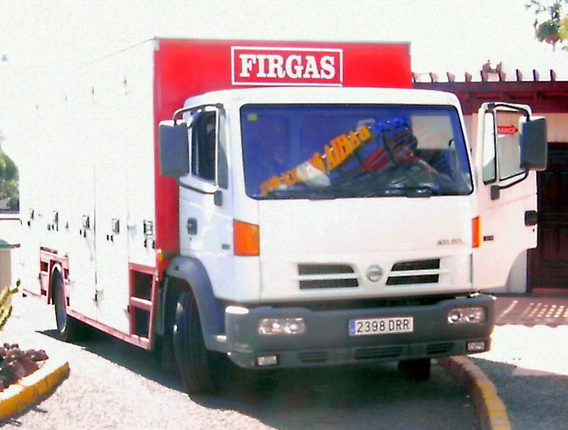 Nissan Atleon of the spanish Mark "Firgas" on Lanzarote